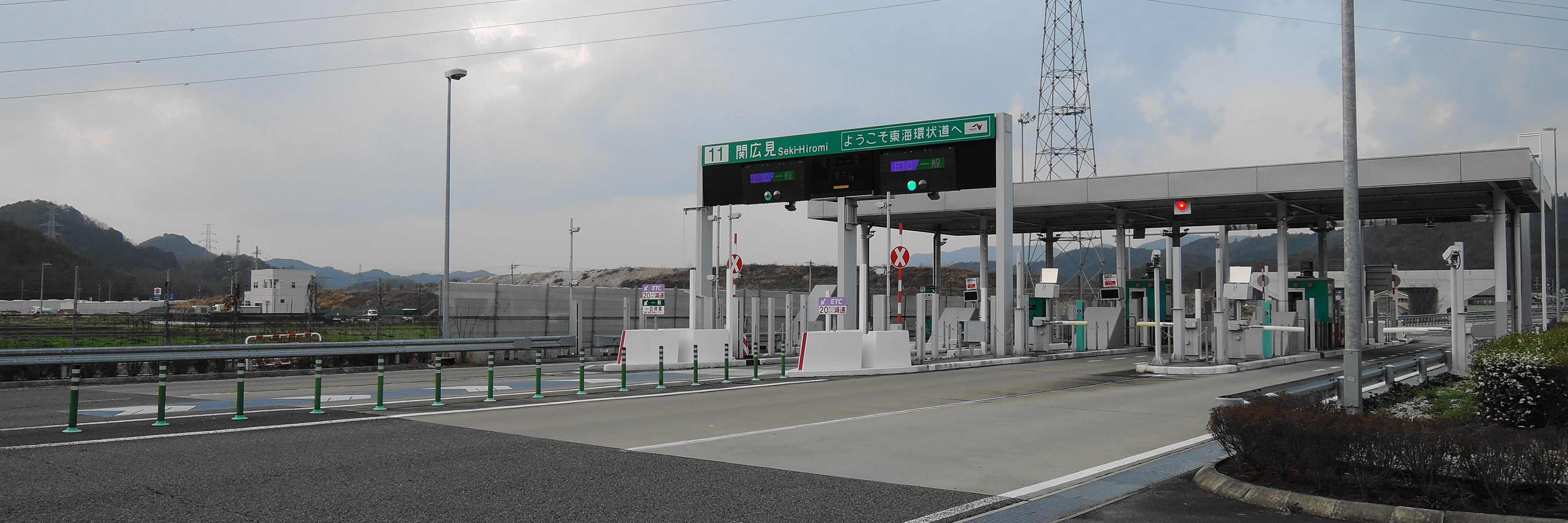 Seki-Hiromi Inter Change,Gifu prefecture,Japan